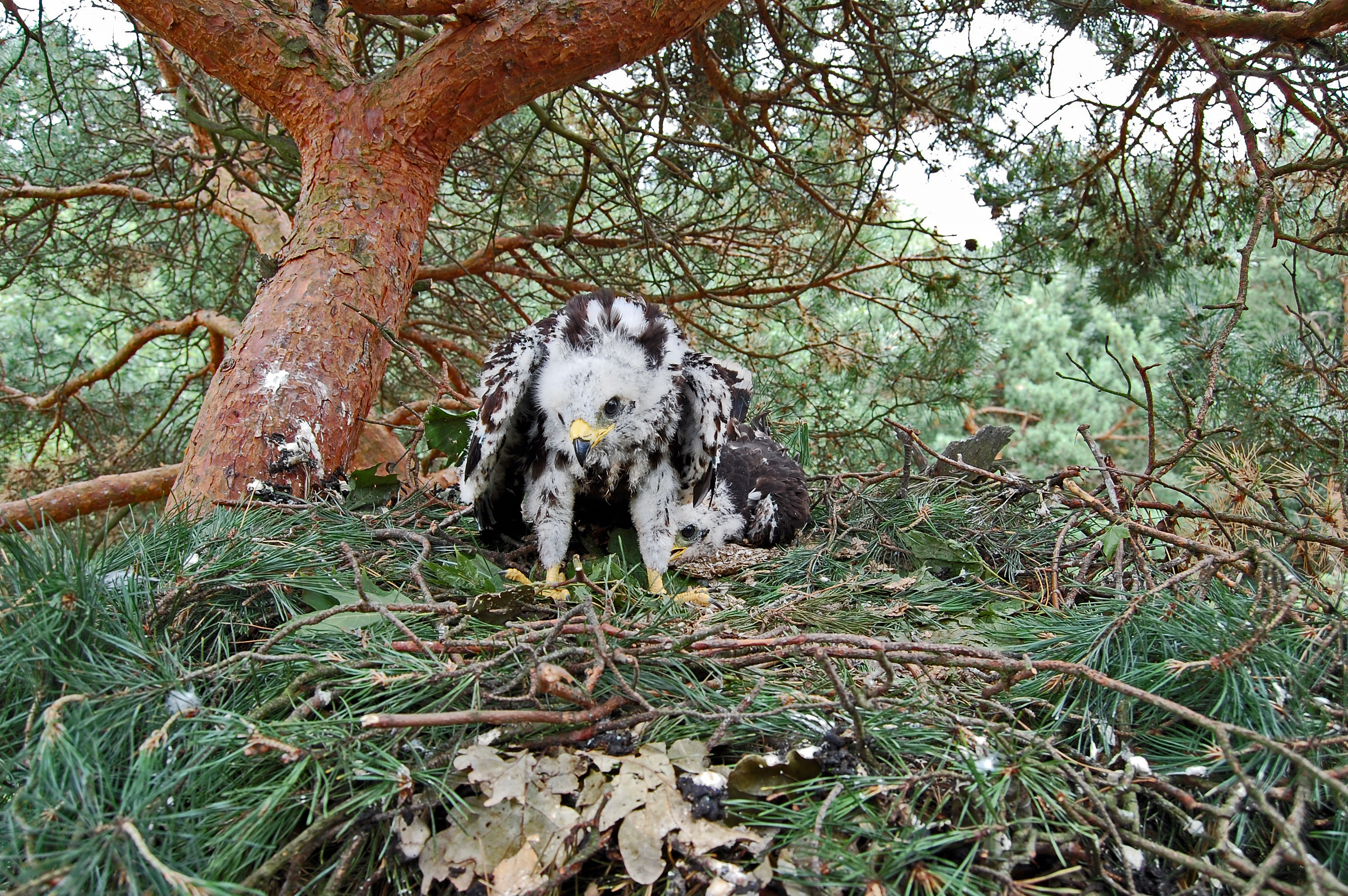 Honey buzzard (Pernis apivorus). Two nestlings on nest (age 30 and 28 days). Forest Jungfernheide, Berlin, Germany. Picture taken during regular ringing activities.